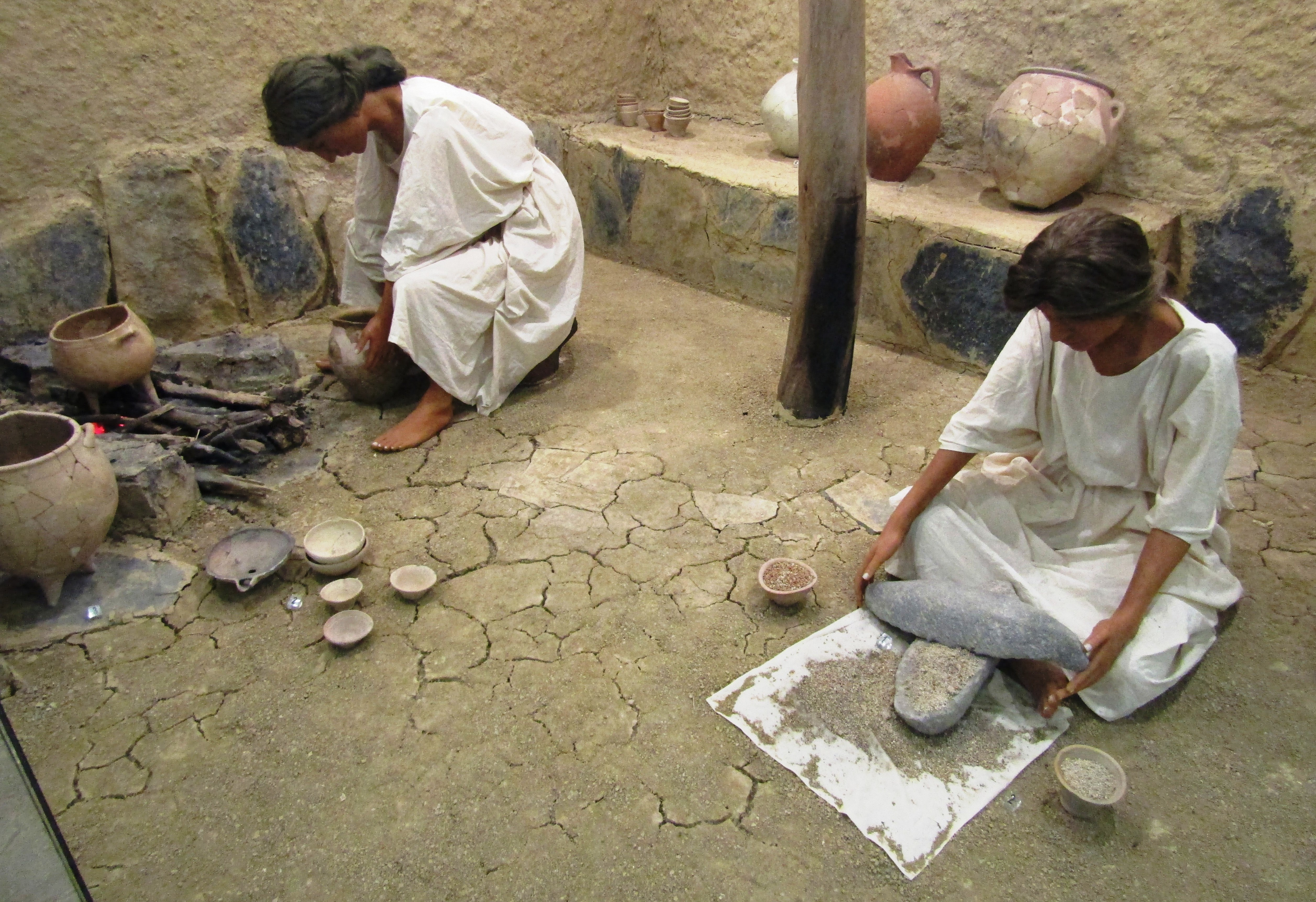 Minoan kitchen